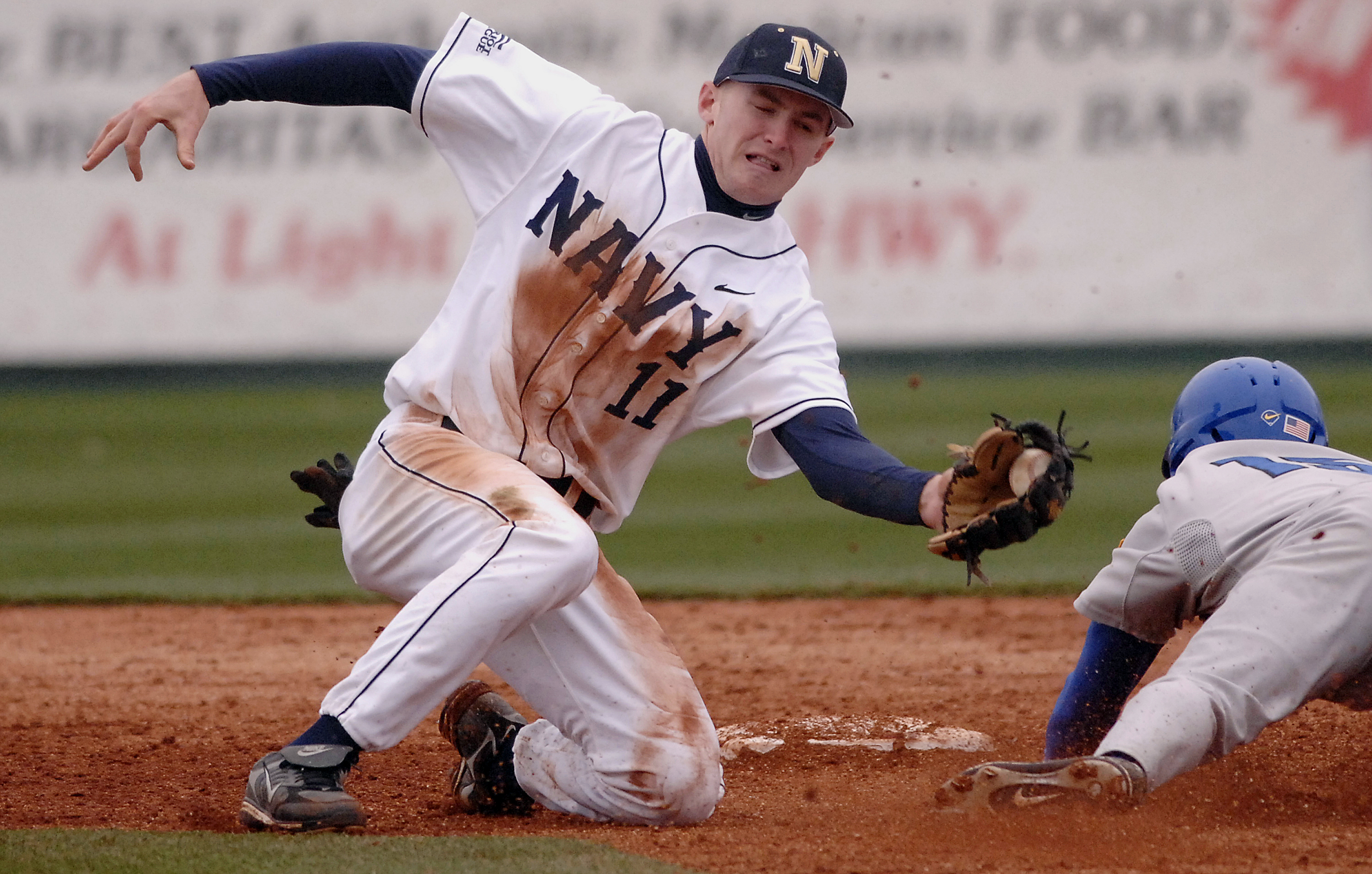 080222-N-8726C-001 MILLINGTON, Tenn. (Feb. 22, 2008) Navy shortstop Nick Driscoll catches the frozen rope rifled from Navy catcher Steve Soares during the first of two Navy vs. Air Force games at the annual Service Academy Spring Classic baseball tournament. Navy faced teams from the Air Force, Memphis, Arkansas State, Ohio State and Seton Hall. The Midshipmen finished the tournament 2-1, placing third.